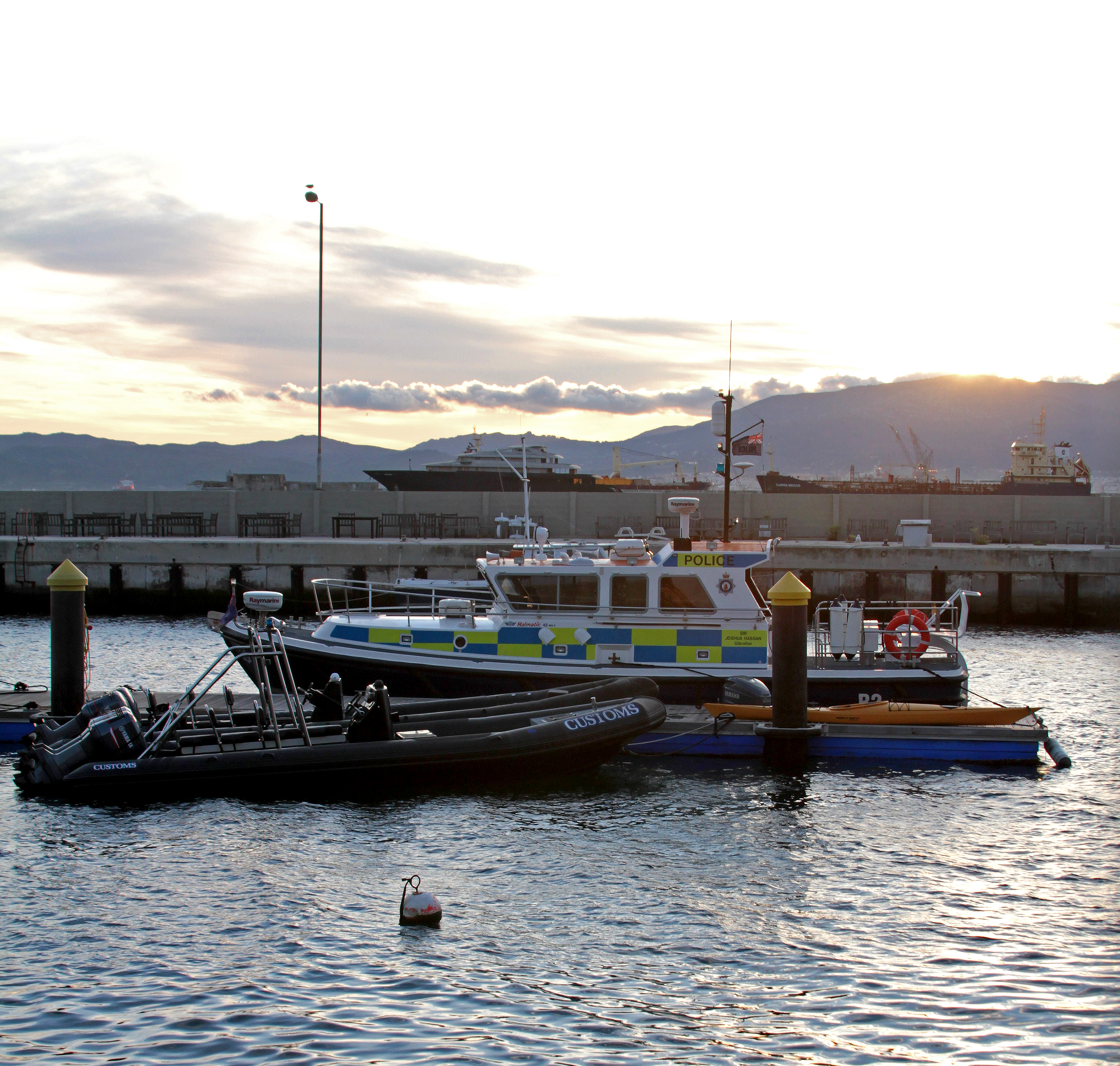 Vessel of the Royal Gibraltar Police Marine Section 'Sir Joshua Hassan', one of the older vessels to be added to the RGP fleet.